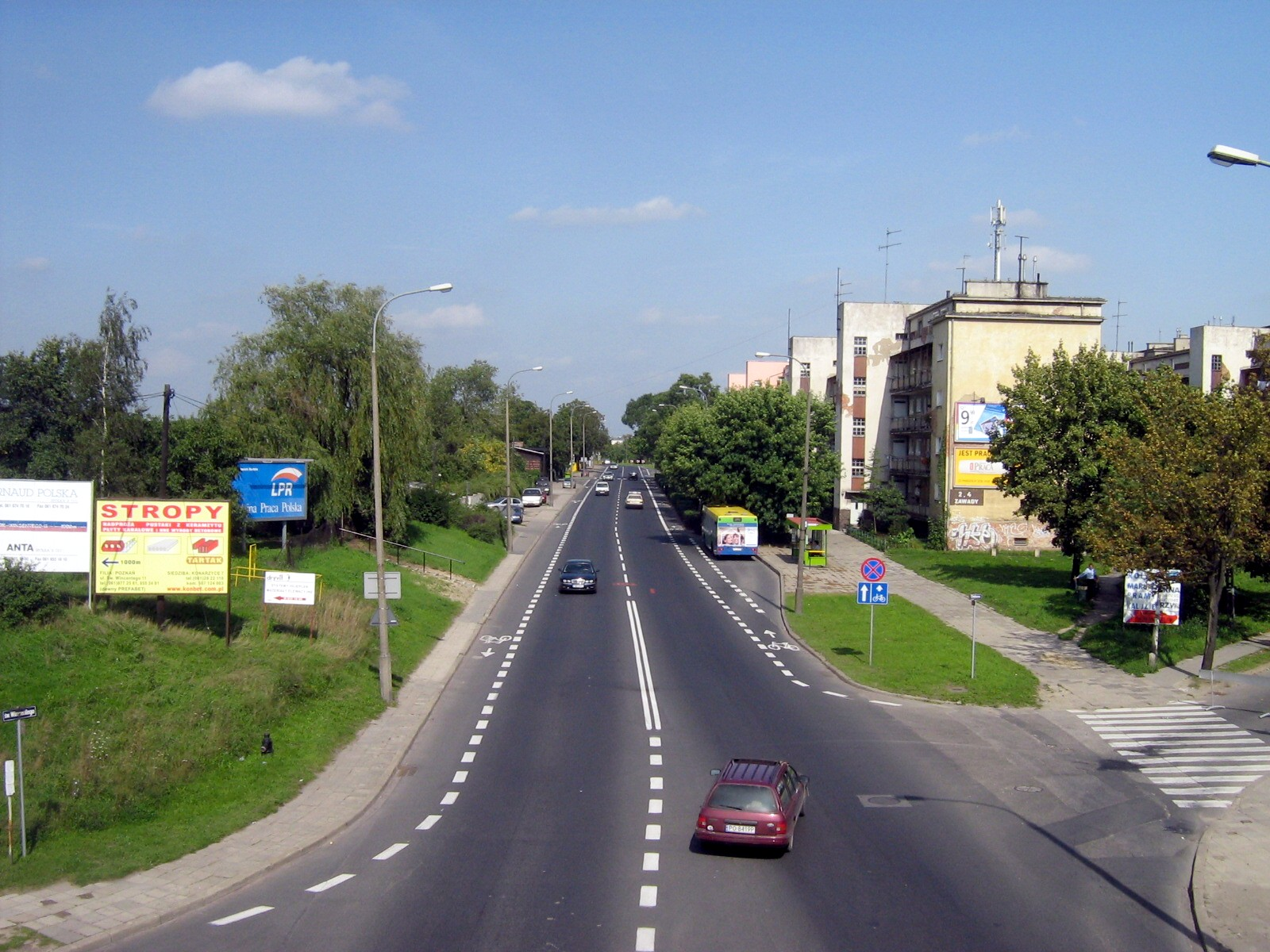 Zawady-str. in Poznań (Poland), the view on the North.